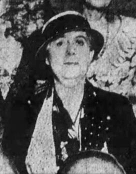 Screenshot-2017-9-17 7 Apr 1932, Page 2 - Oakland Tribune at Newspapers com